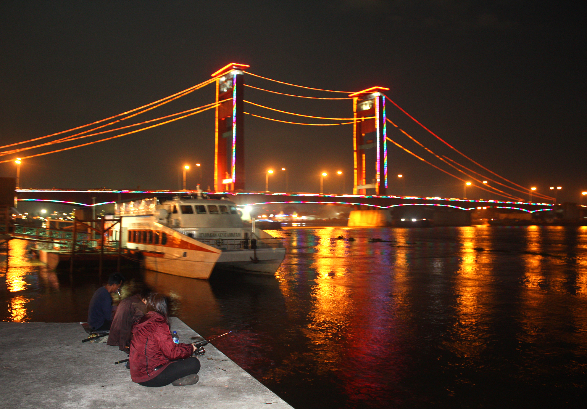 Some men doing night fishing on the bank of Musi river by the Ampera Bridge. The bridge is a major landmark in Palembang, Indonesia. It was constructed in 1962-1965.